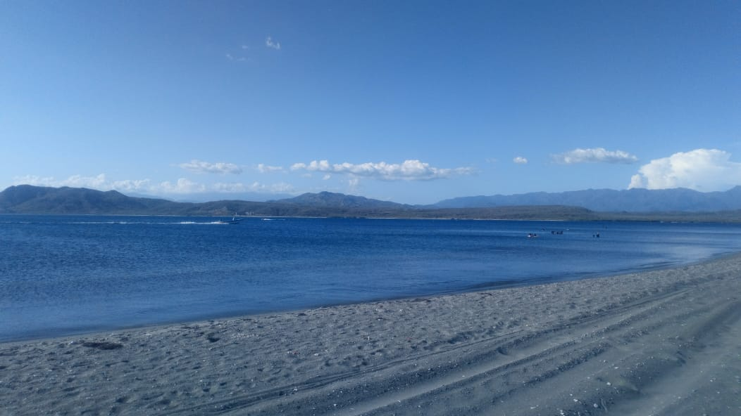 Calderas Bay DR